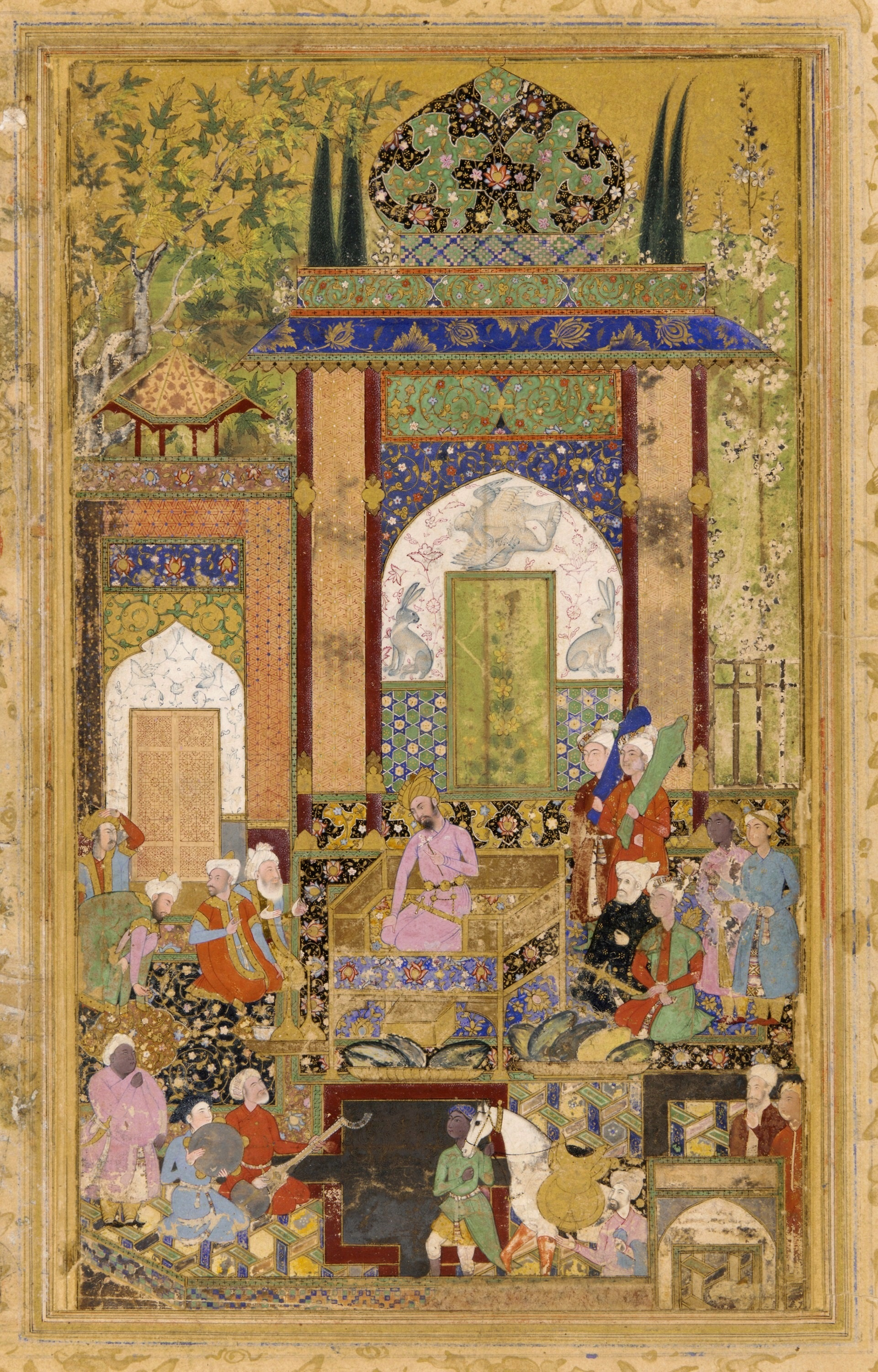 Babur Receives a Courtier, 1589, Farrukh Baig, Mughal dynasty, Opaque watercolor and gold on paper Painted and mounted within borders of a Rawdat al-safa page